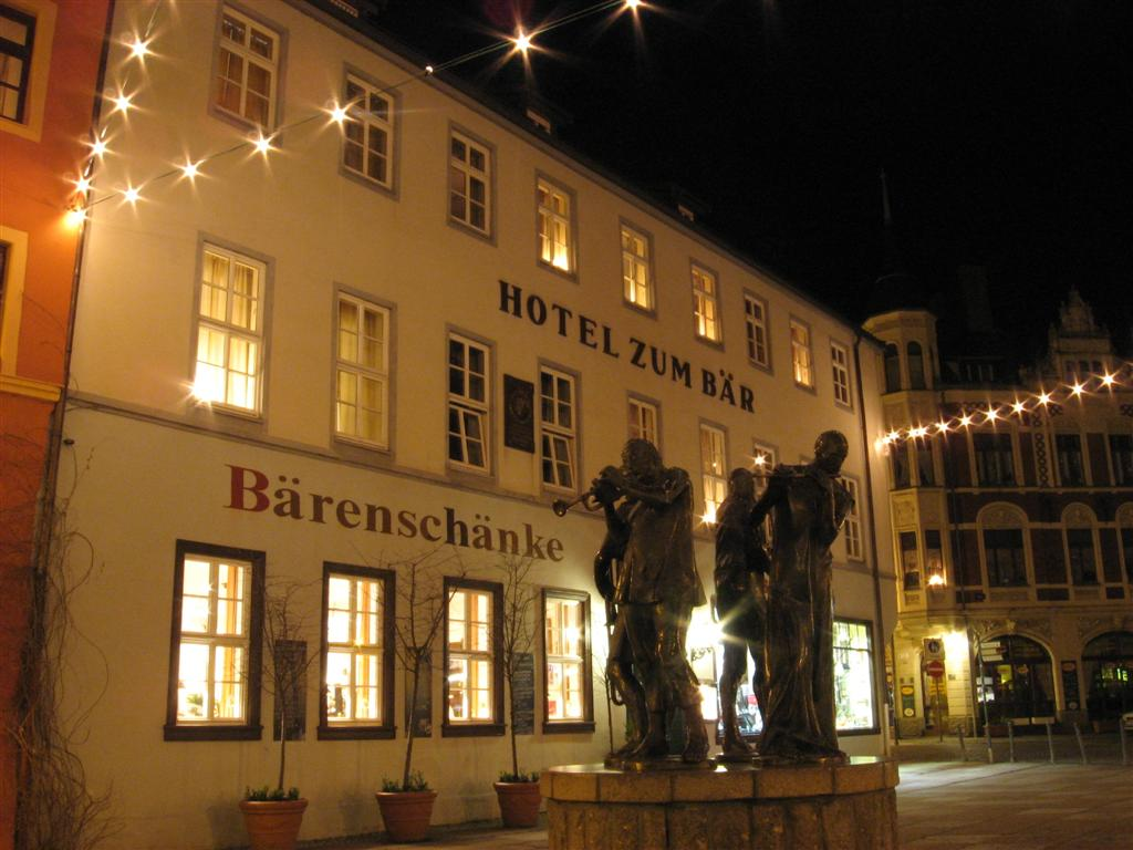 Building in Quedlinburg / Germany